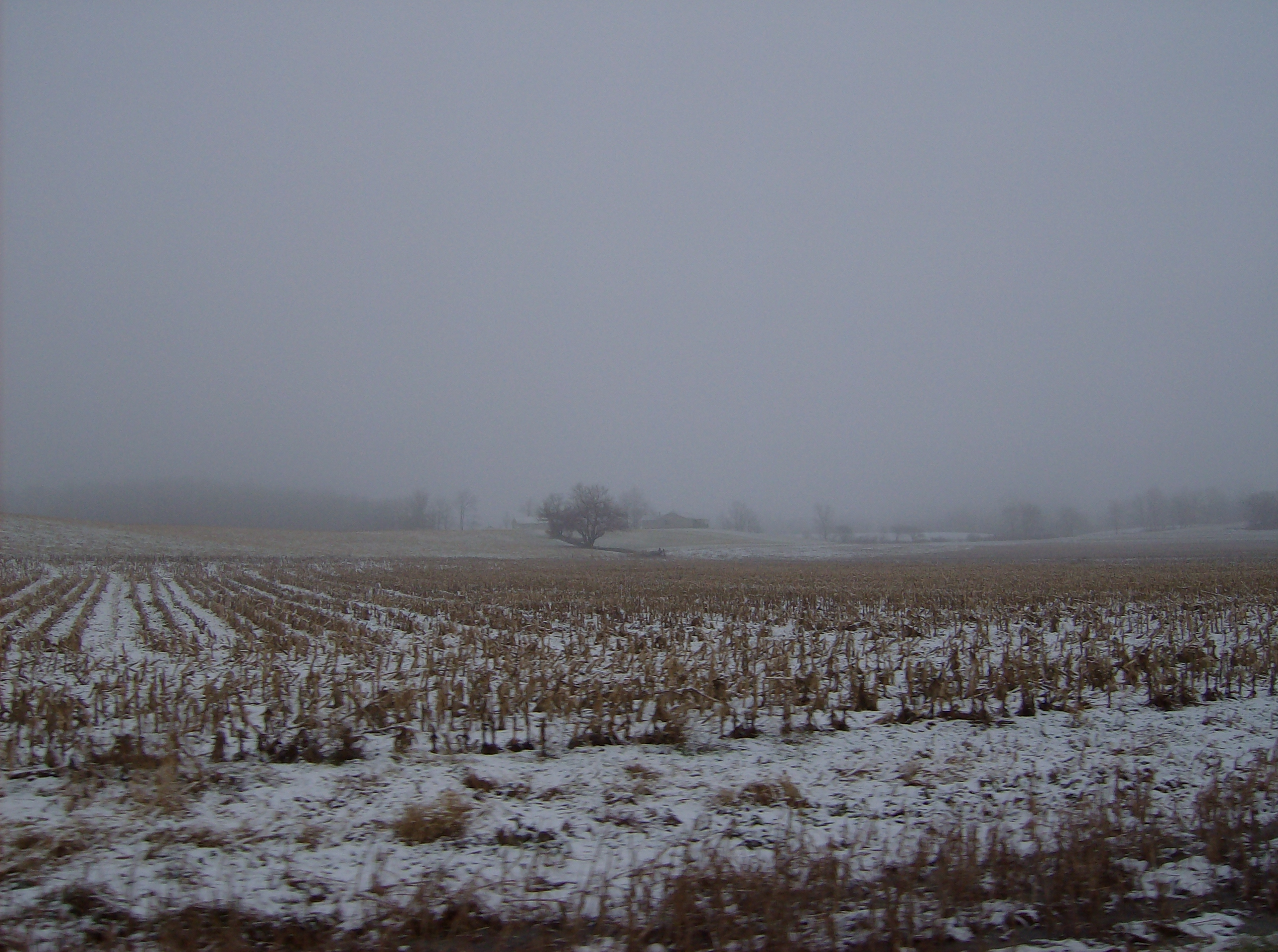 Countryside in central Fairmount Township, Grant County, Indiana, United States. Picture taken northward from State Road 26.